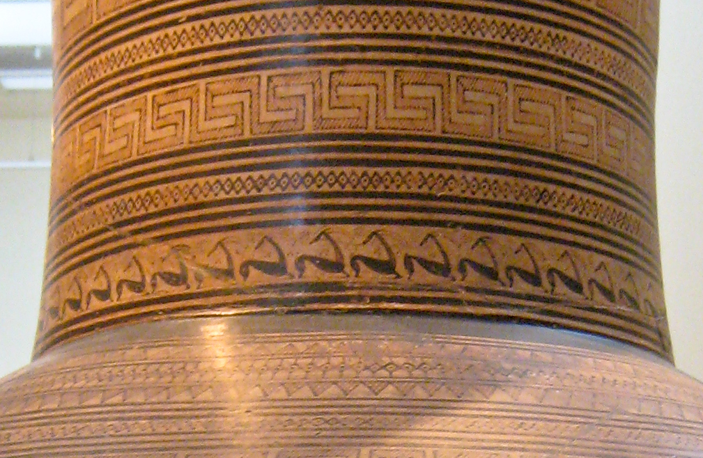 Athenian funerary amphora, Late geometric I. Detail. Mourners below the handle, geometric patterns and animal friezes on the neck.